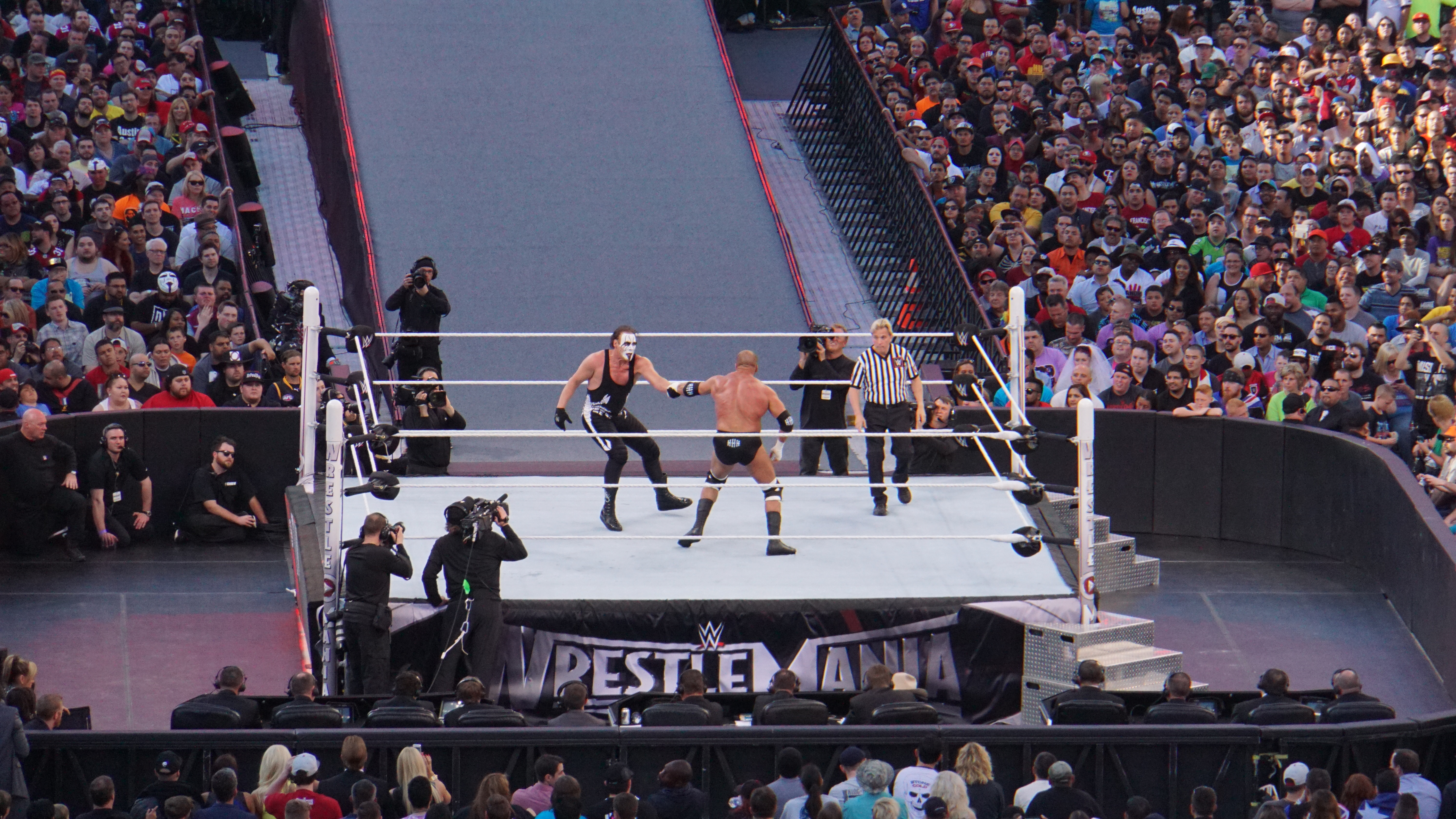 2015-03-29_17-10-01_ILCE-6000_DSC07222